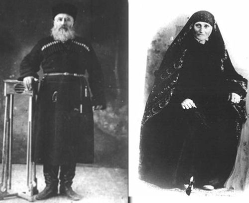 Georgian Jews of Tbilisi in 1800s